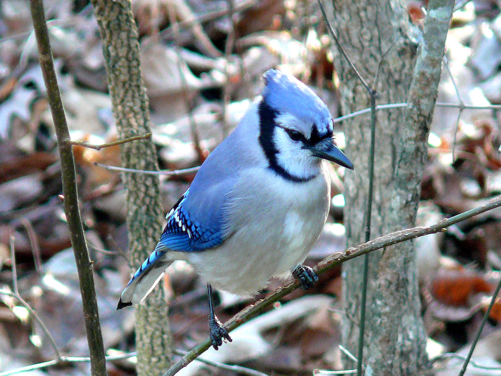 A Blue Jay (Cyanocitta cristata) perched on a tree branch.Photo taken with a Panasonic Lumix DMC-FZ50 in Johnston County, North Carolina, USA.